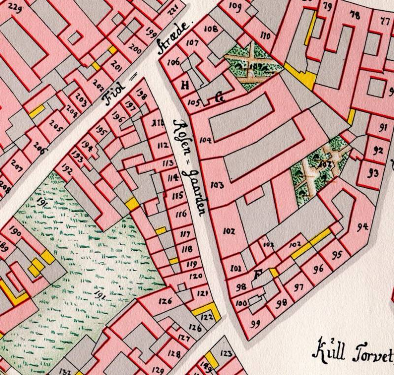 Rosengården seen on a detail from Christian Gedde's district maps of Copenhagen.